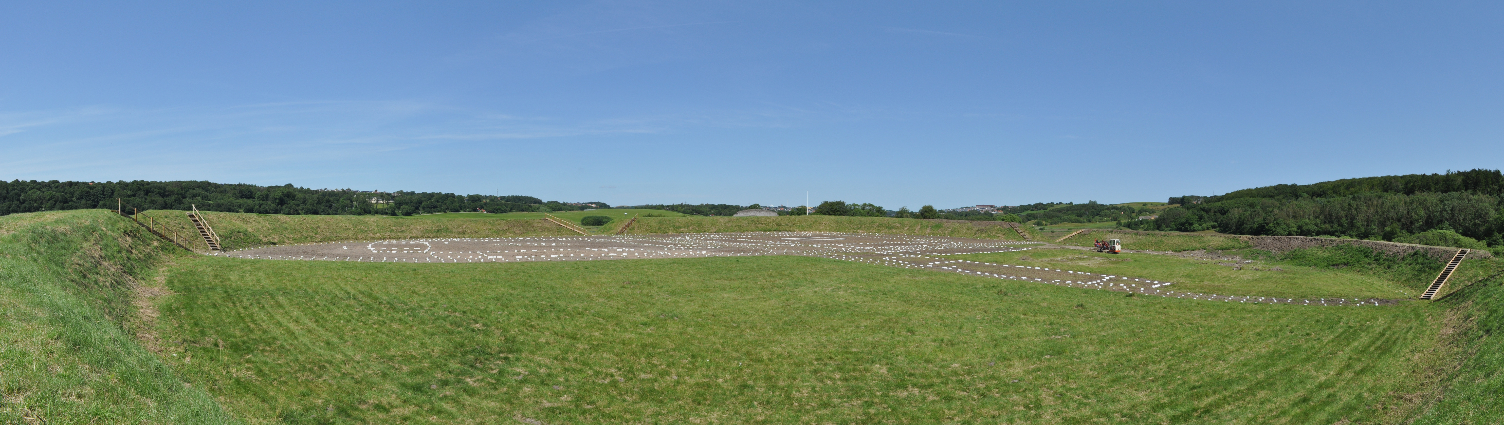 Panorama of Fyrkat viking fort.